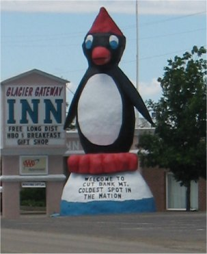 Cut Bank, MT's welcome penguin.